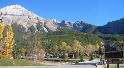 The front entrance to the townsite of Field, British Columbia. Mount Stephen (3,199m) is in the background.